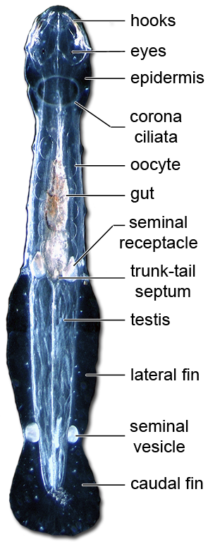 Overall morphologique of a chaetognath (Spadella cephaloptera)